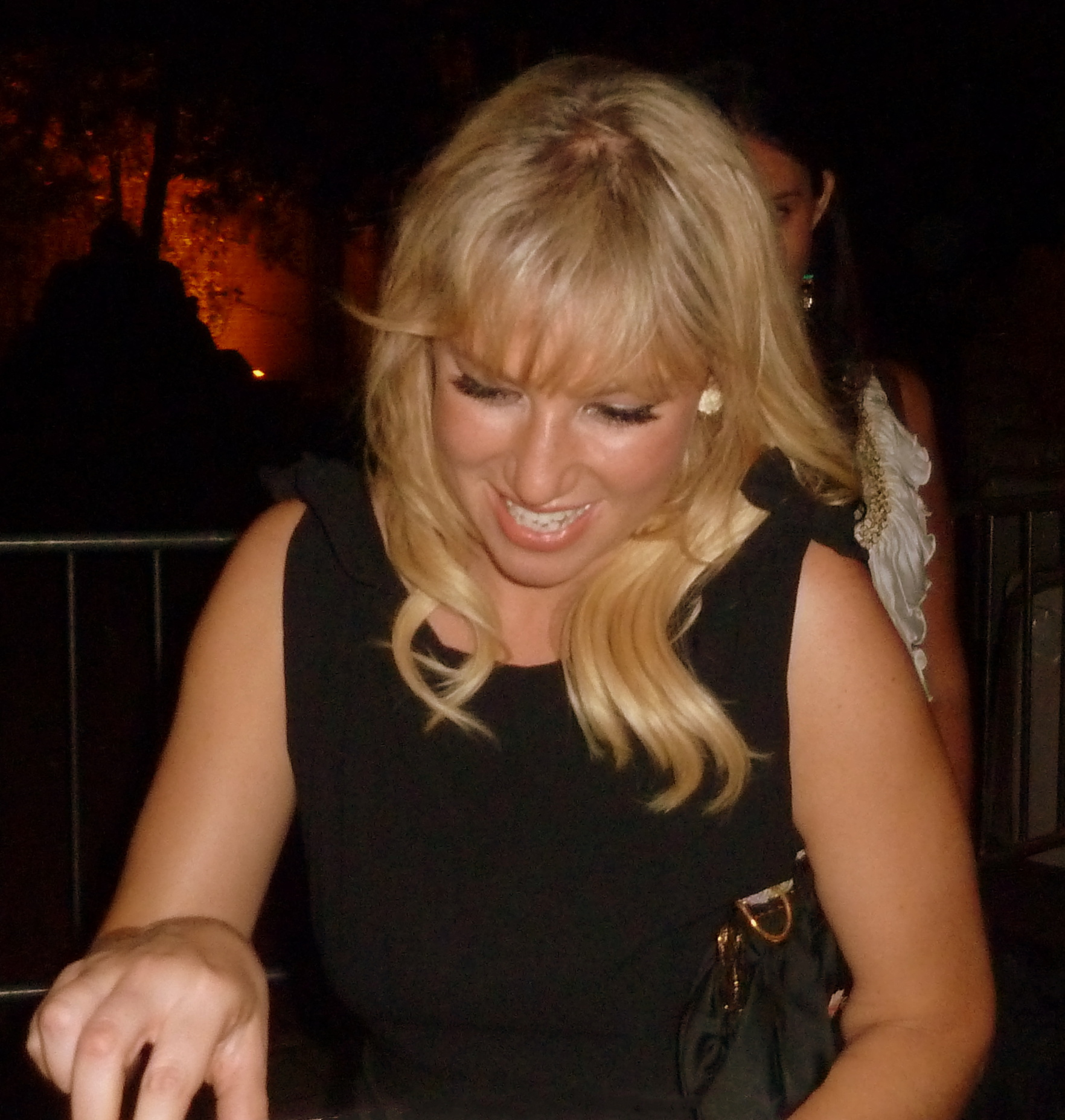 Ari Graynor at the premiere of Ten Year, Toronto Film Festival 2011